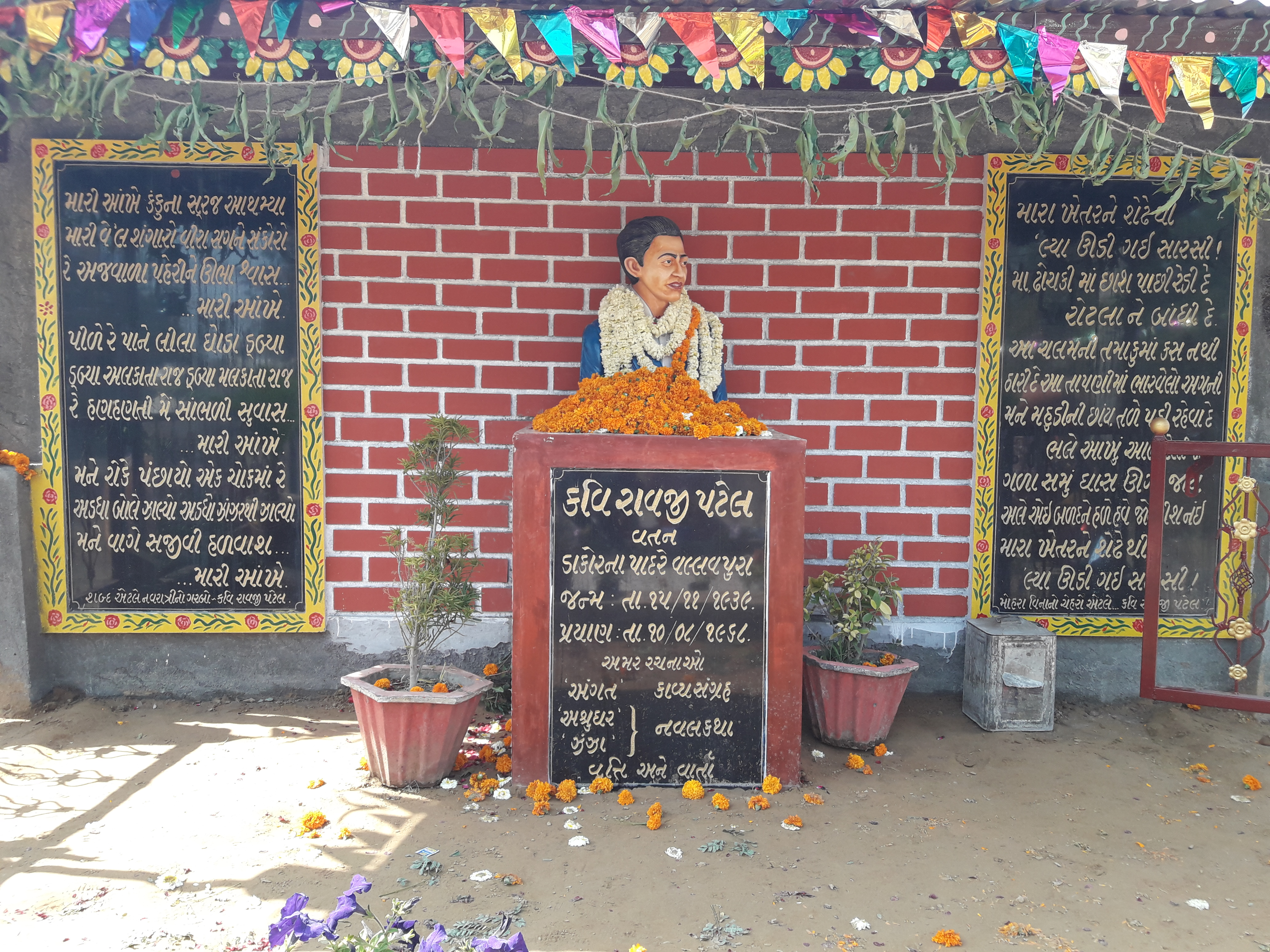 Bust of Ravji Patel at Dakor, inaugurated in 11 February 2017. Left of bust: Ravji's poem "Aabhasi Mrityu Nu Geet, Right side of bust: Ravji's poem "Ek Bapore"